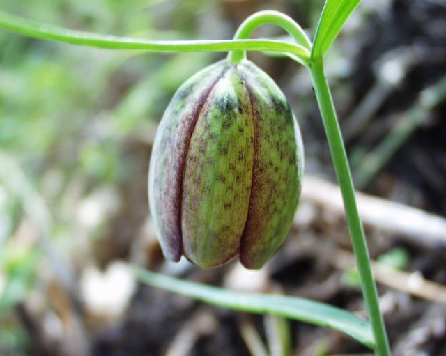 (en) Fritillaria involucrata, a photography originating of the internet site The accord of the autor, H. Brisse, is here. (fr) Fritillaria involucrata, une photographie issue du site internet L'accord de l'auteur, H. Brisse, se situe ici.